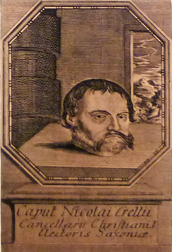 Decapitated head of Nikolaus Krell (c. 1551 – 9 October 1601), chancellor of the elector of Saxony Christian I; engraving by an anonymous artist; Kupferstichkabinet Dresden, Germany